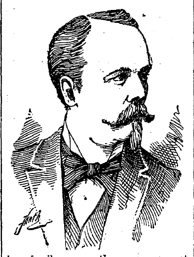 The Weekly Sentinel and Wisconsin Farm Journal (Milwaukee, WI) Thursday, May 05, 1892; col B